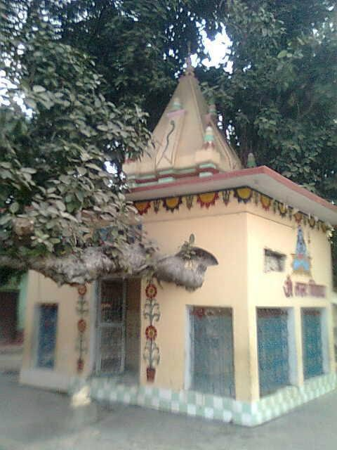 The main religious place of village.